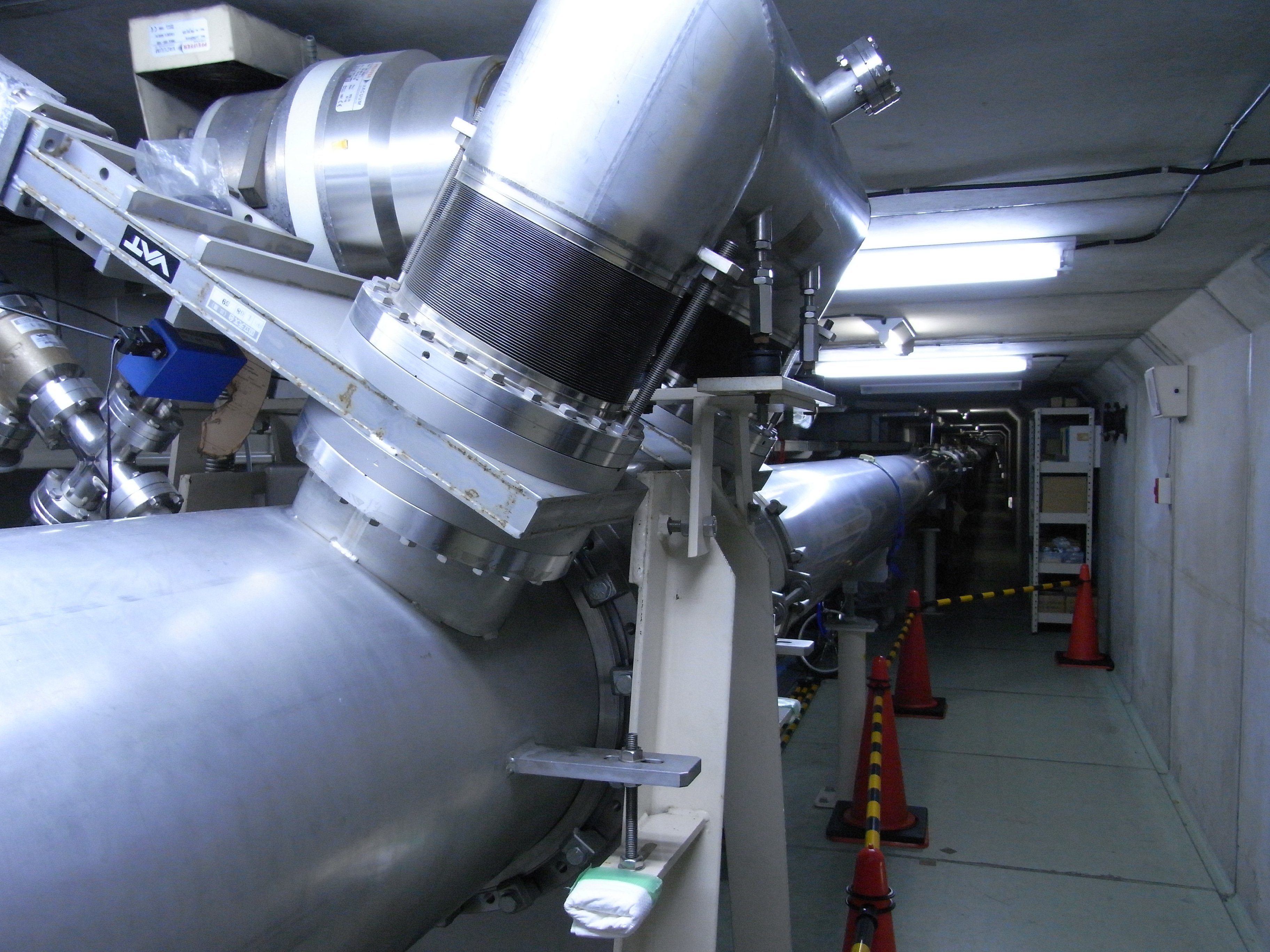 Vacuum pump and laser beam duct, TAMA300 gravitational wave detector, Mitaka Campus, National Astronomical Observatory of Japan, Mitaka, Tokyo, Japan